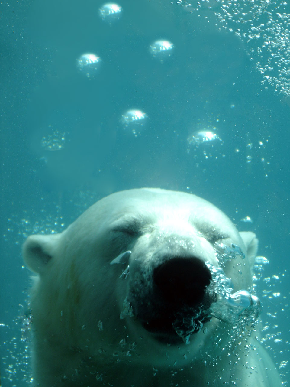 Polar bear in the Zoo sauvage de Saint-Félicien, in Saint-Félicien, Québec, Canada.